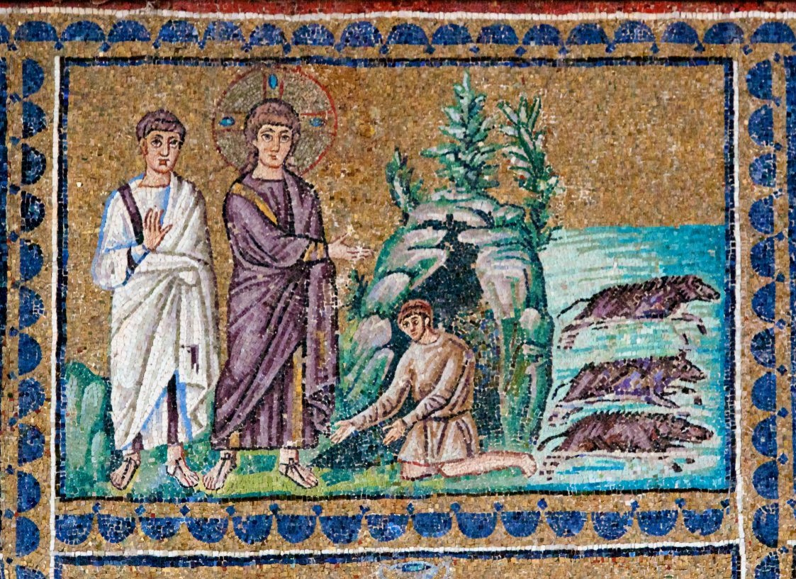 This is a mosaic of the exorcism of the Gerasene demoniac from the Basilica of Sant'Apollinare Nuovo in Ravenna, Italy. It dates to the early sixth century AD.